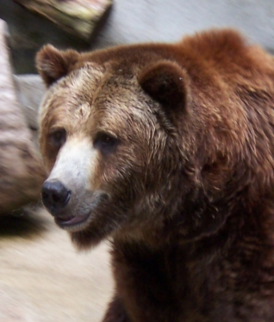 Grizzly Bear